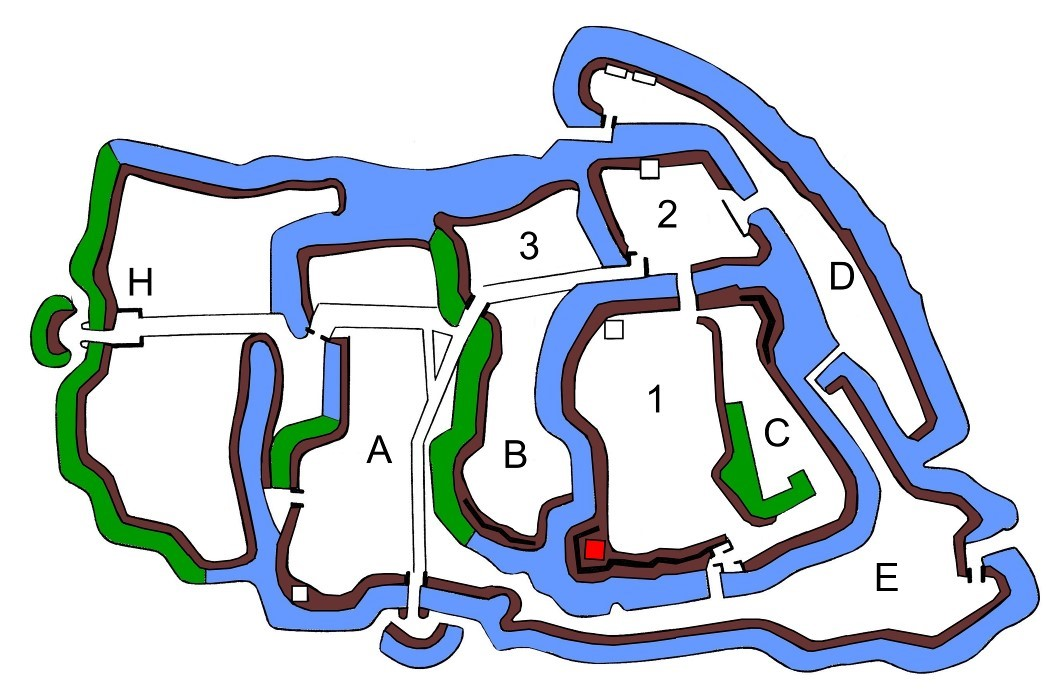 Layout of old Kawagoe castle